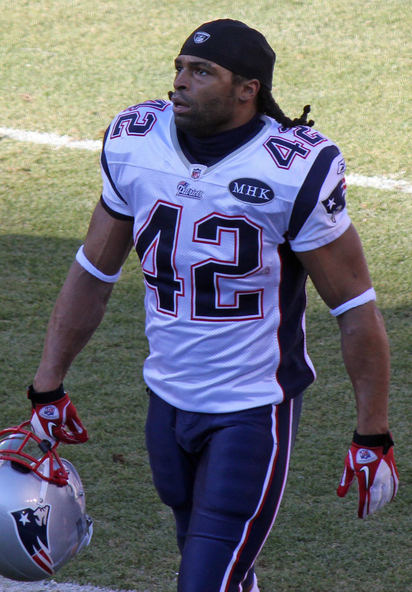 BenJarvus Green-Ellis, a player on the National Football League.